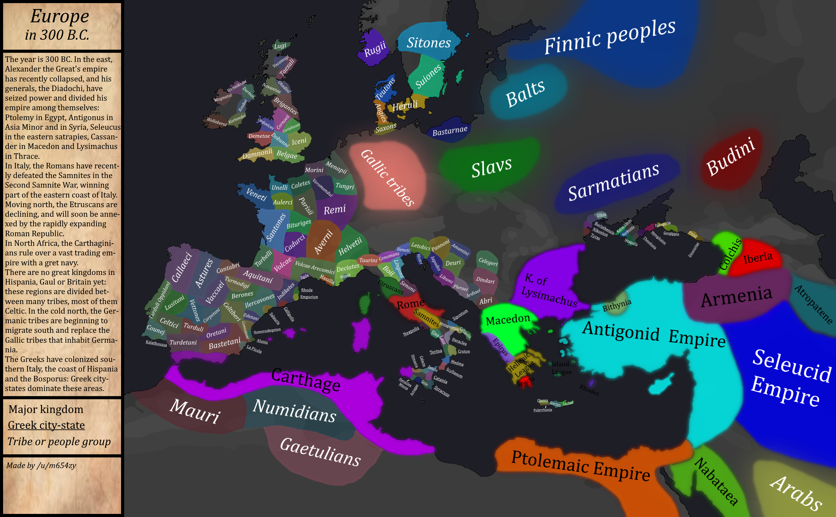 This map shows Europe, North Africa and part of the Near East in the year 301, shortly before the partition of the Antigonid Empire.